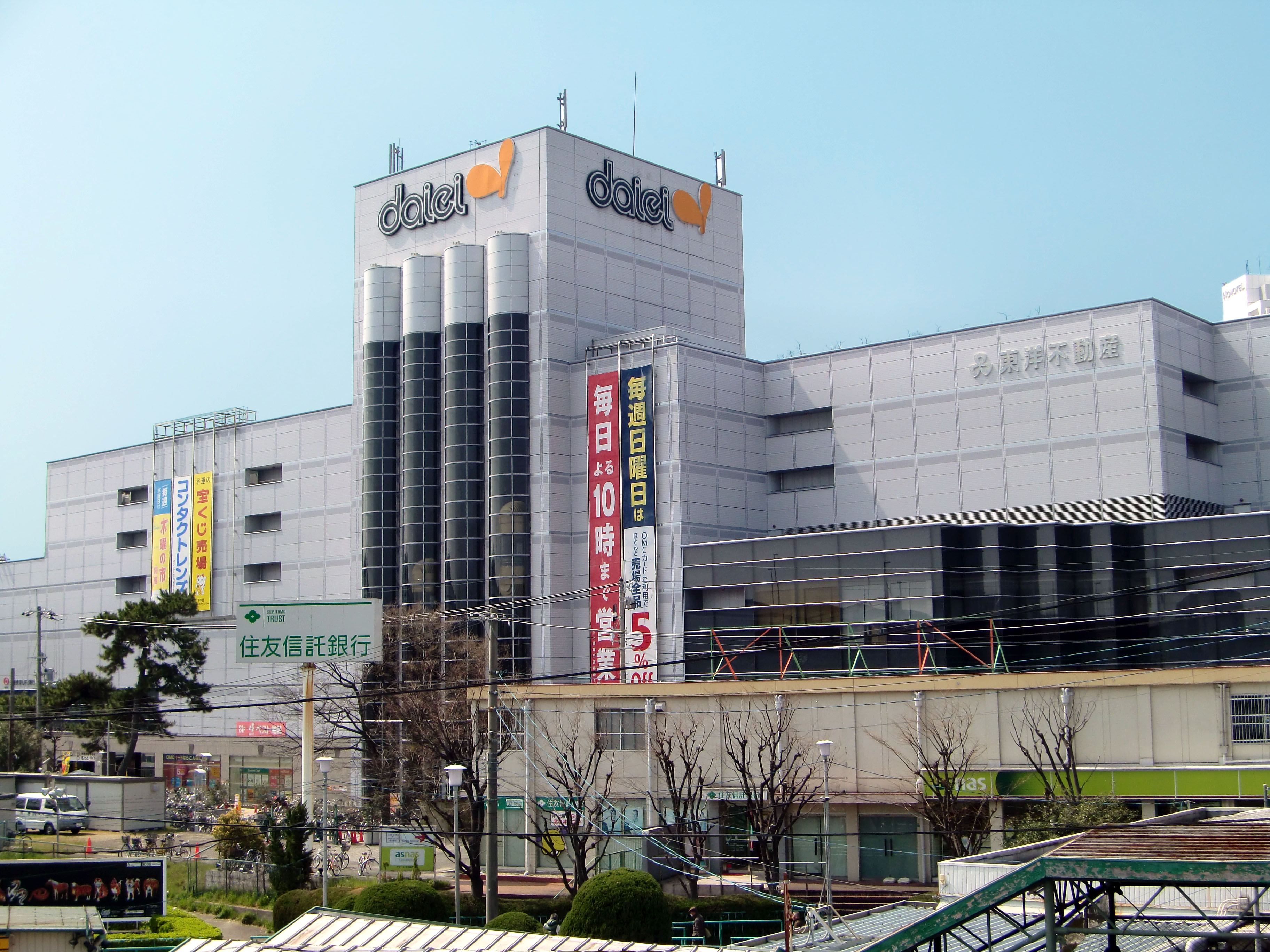 Daiei Koshien,3-3 Takashiocho Koshien Nishinomiya-City Hyogo Japan.